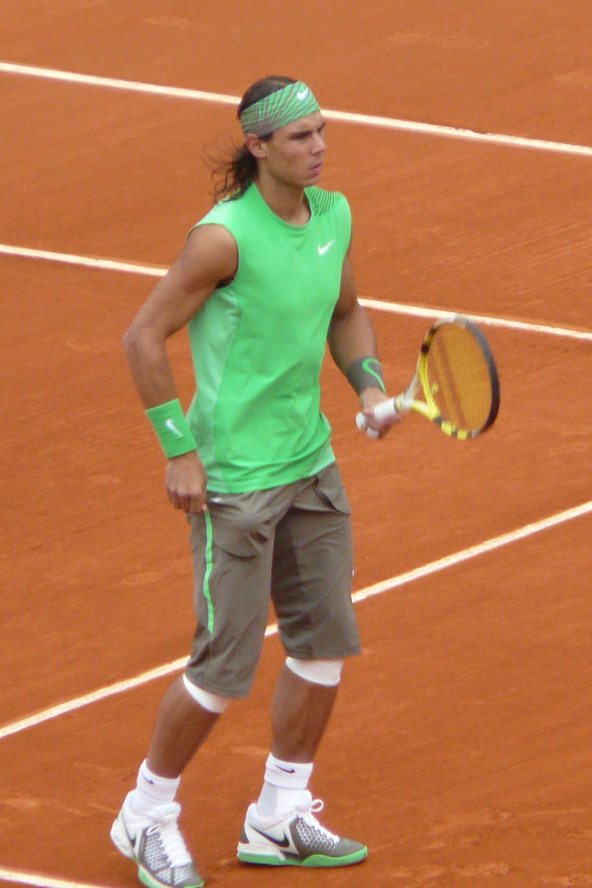 Rafael Nadal against Nicolás Almagro in the 2008 French Open quarterfinals